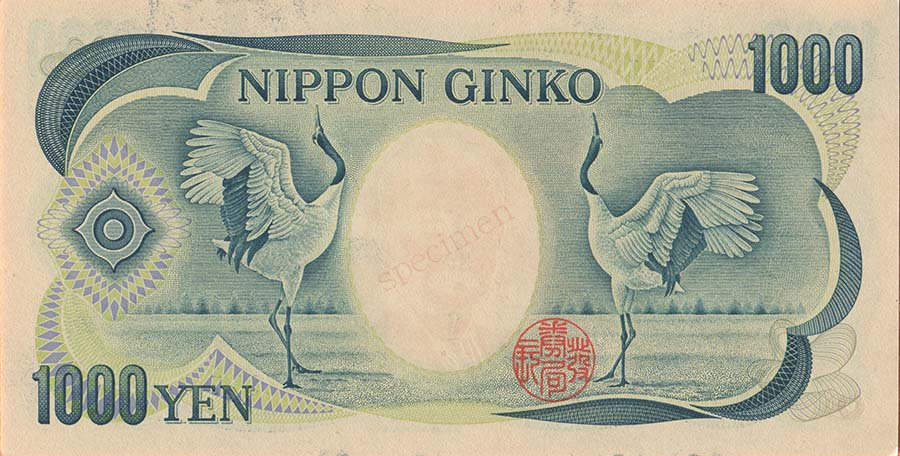 Series D 1000 Yen Bank of Japan note. A pair of red-crowned cranes. First issued in 1984. Issue suspended in 2007. Legal tender. 150mm x 76mm.